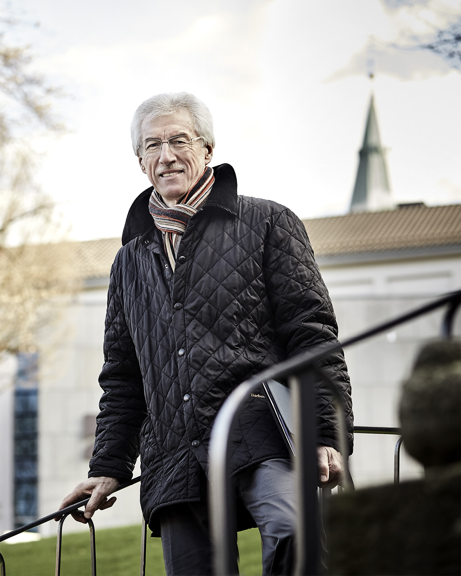 Willi Lenz in the Paderquellgebiet Paderborn